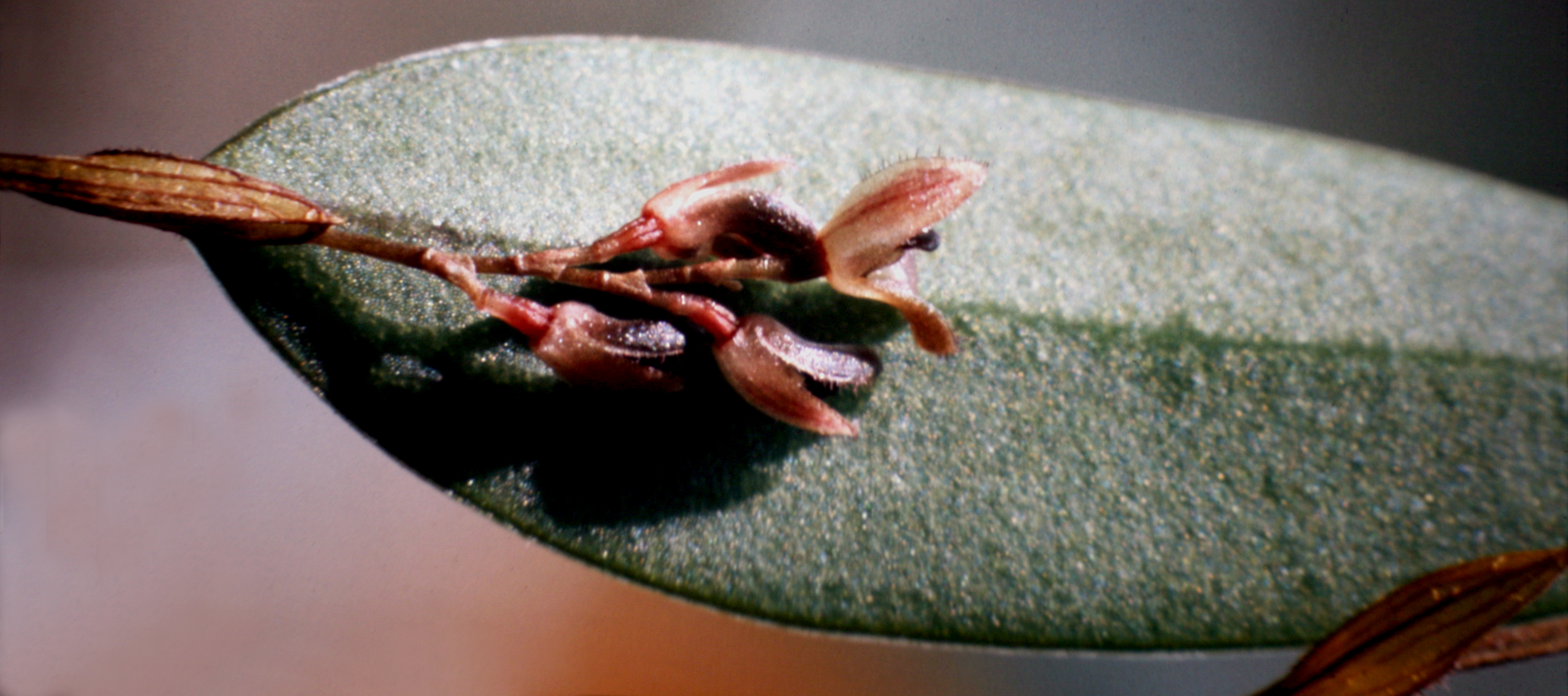 Pleurothallis ciliaris. Suriname.